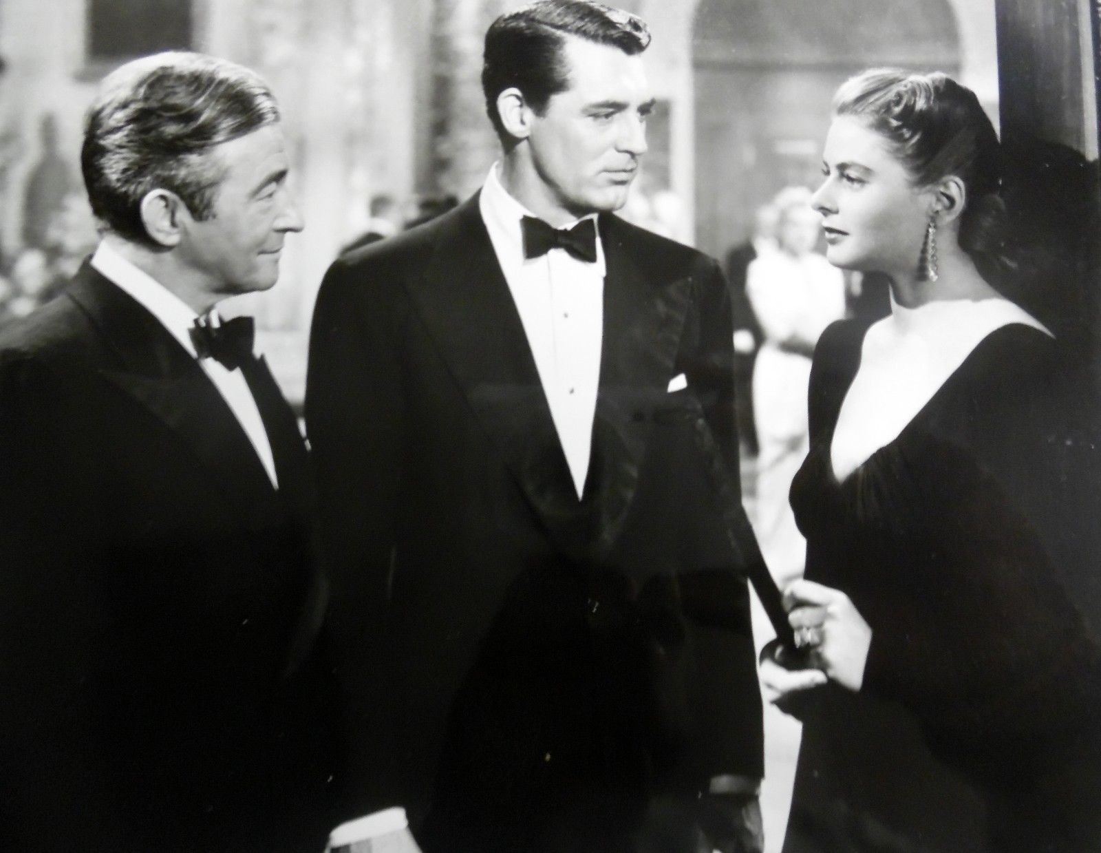 Claude Rains, Cary Grant & Ingrid Bergman in a scene from the 1946 film Notorious